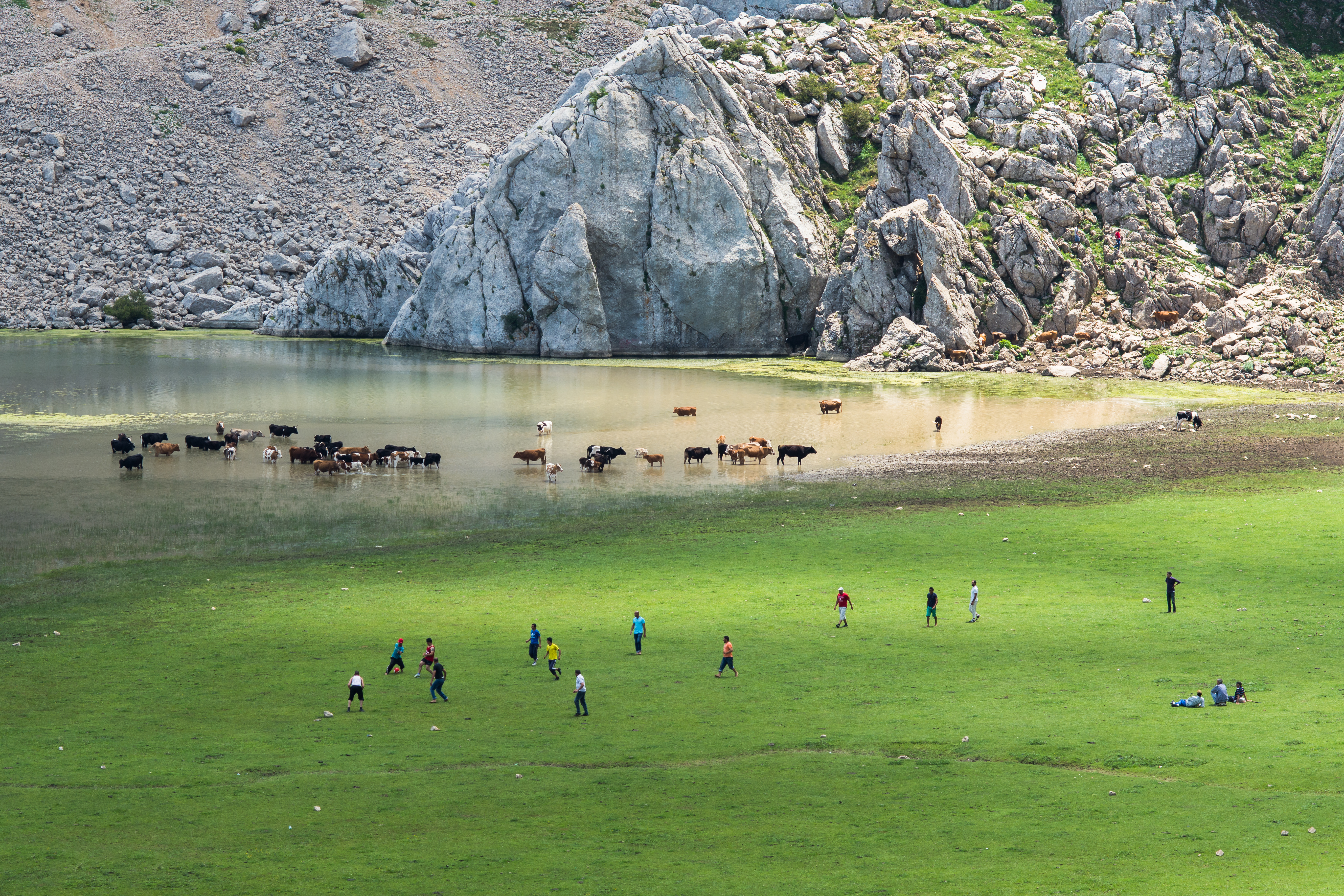 This photo was taken in June 5, 2015 in the lake of Aguelmim, in Tikjda at 1700 m of altitude (Algeria).